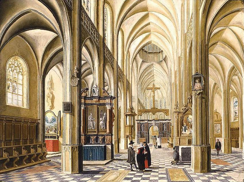 The interior depicted is probably meant to represent the Cathedral of Antwerp. The shutters of the altarpiece on the left depict Saint Luke painting the Virgin. Saint Luke was the patron saint of artist's and it must have amused van Bassen to include this detail.